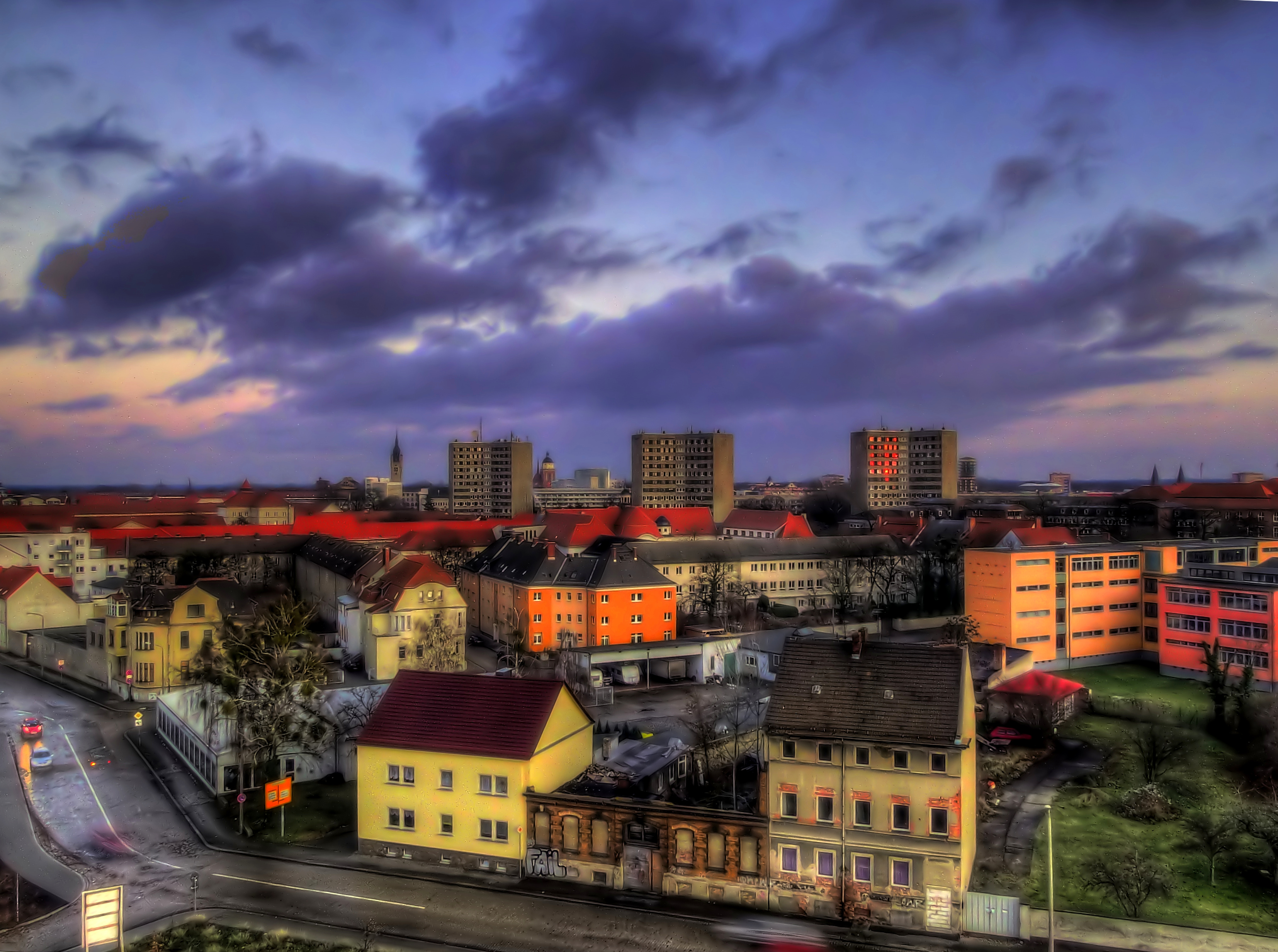 Skyline Dessau HDR (taken from viewing tower "Alter Räucherturm")